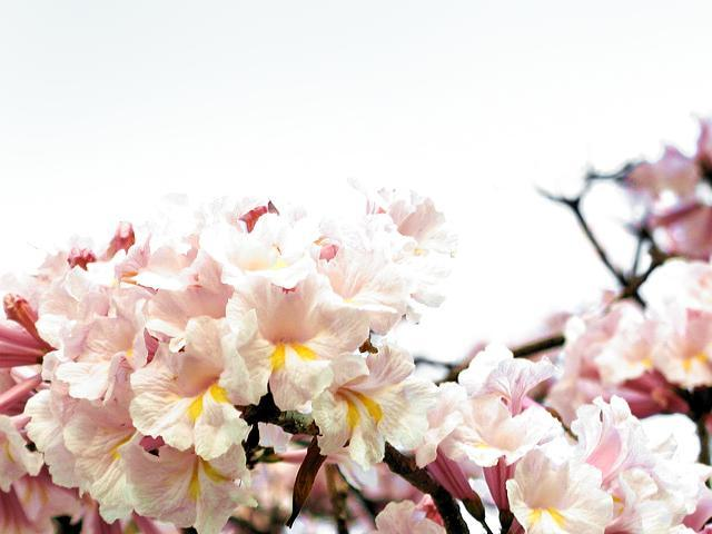 Tabebuia roseo-alba flowers in detail